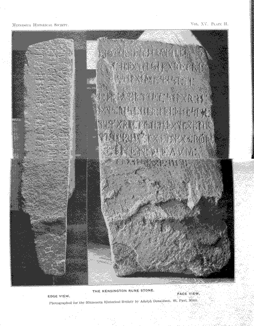 The Kensington Runestone.